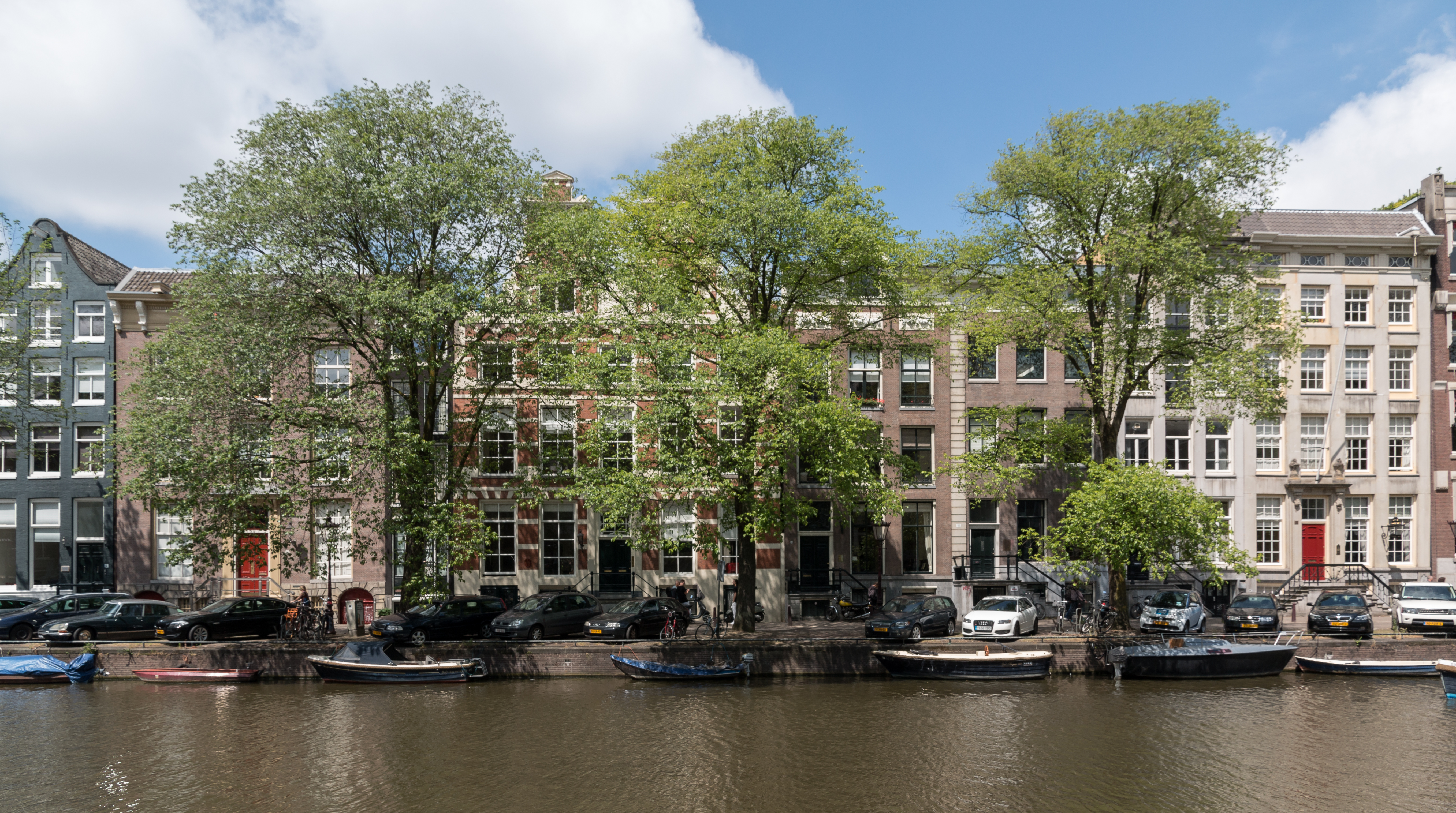 Singel in Amsterdam, Netherlands This is an image of rijksmonument number 5299 This is an image of rijksmonument number 5300 This is an image of rijksmonument number 5301 This is an image of rijksmonument number 5302